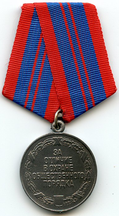 Russian medal "For Distinction in the Protection of Public Order" (1994)